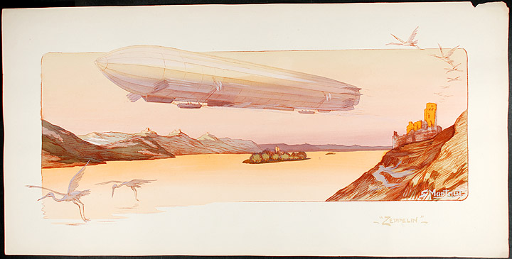 This LZ2 was built sometime between 1910 and 1914. Five airships of this design operated by Delag, safely carried 35,000 passengers between German cities. This was the first passenger air service in the world. [Mabileau & Co.], c. 1915. Hand-coloured pochoir print. Image size (including text): 13 1/2 x 31 1/4 inches. Sheet size: 17 3/4 x 35 inches.